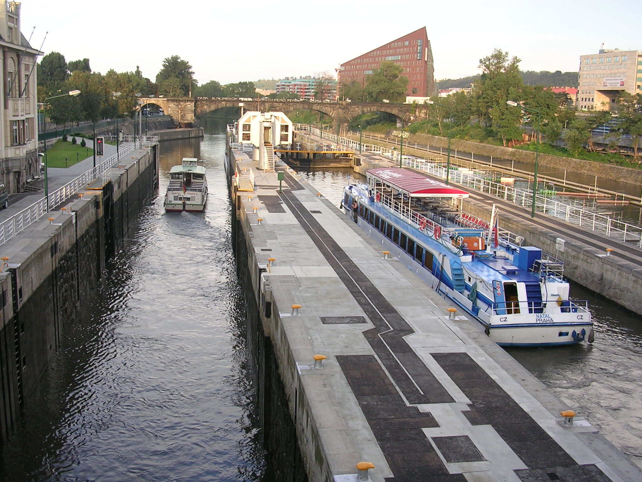 Prague, the Czech Republic. Štvanice Sluice.